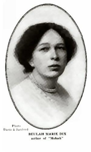 Author Beulah Marie Dix